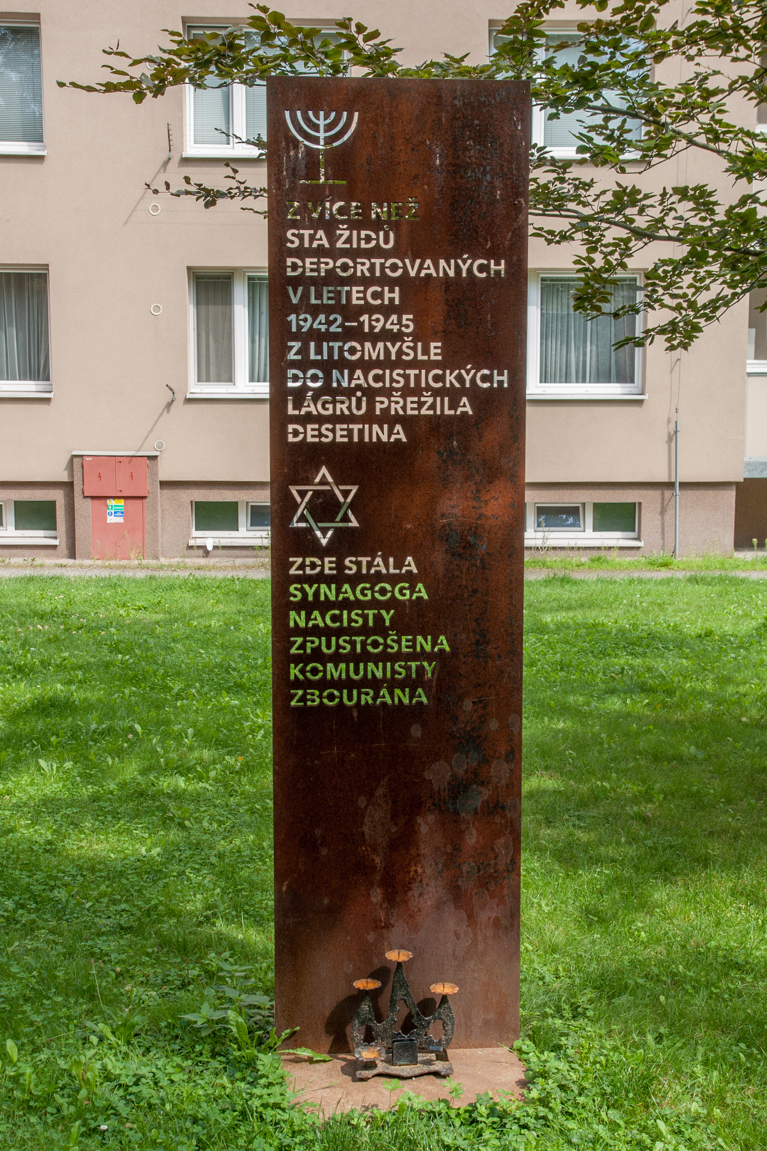 Steel monument to deported Jews and former synagogue in Litomyšl, Svitavy District, Pardubice Region, Czech Republic